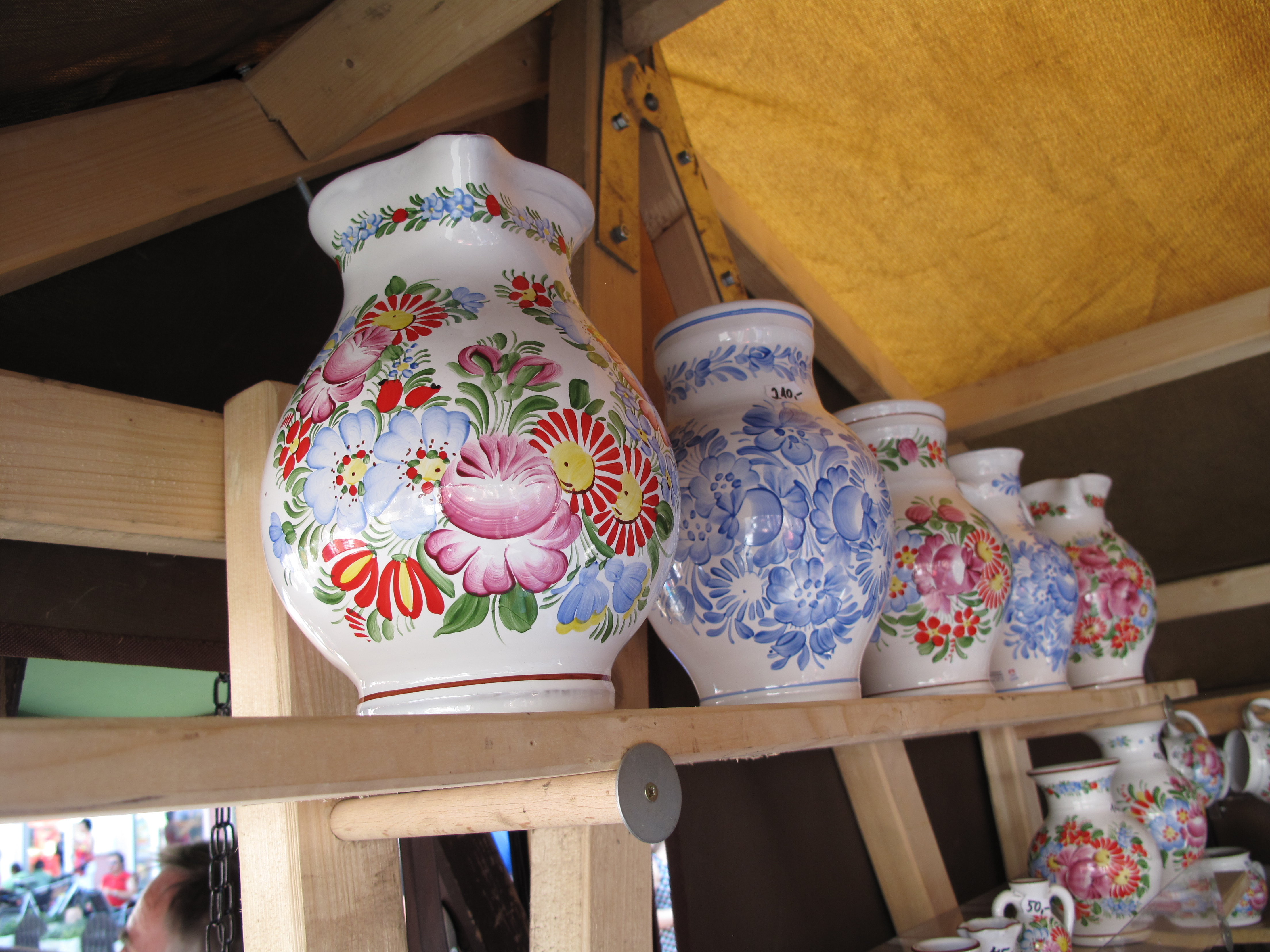 Pottery fair in Beroun in 2011, Czech Republic. Personality rights warningAlthough this work is freely licensed or in the public domain, the person(s) shown may have rights that legally restrict certain re-uses unless those depicted consent to such uses. In these cases, a model release or other evidence of consent could protect you from infringement claims.